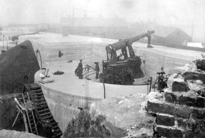 US Army 8-inch gun M1888 on disappearing carriage M1894, Battery Farnsworth, Fort Constitution, New Castle, New Hampshire.